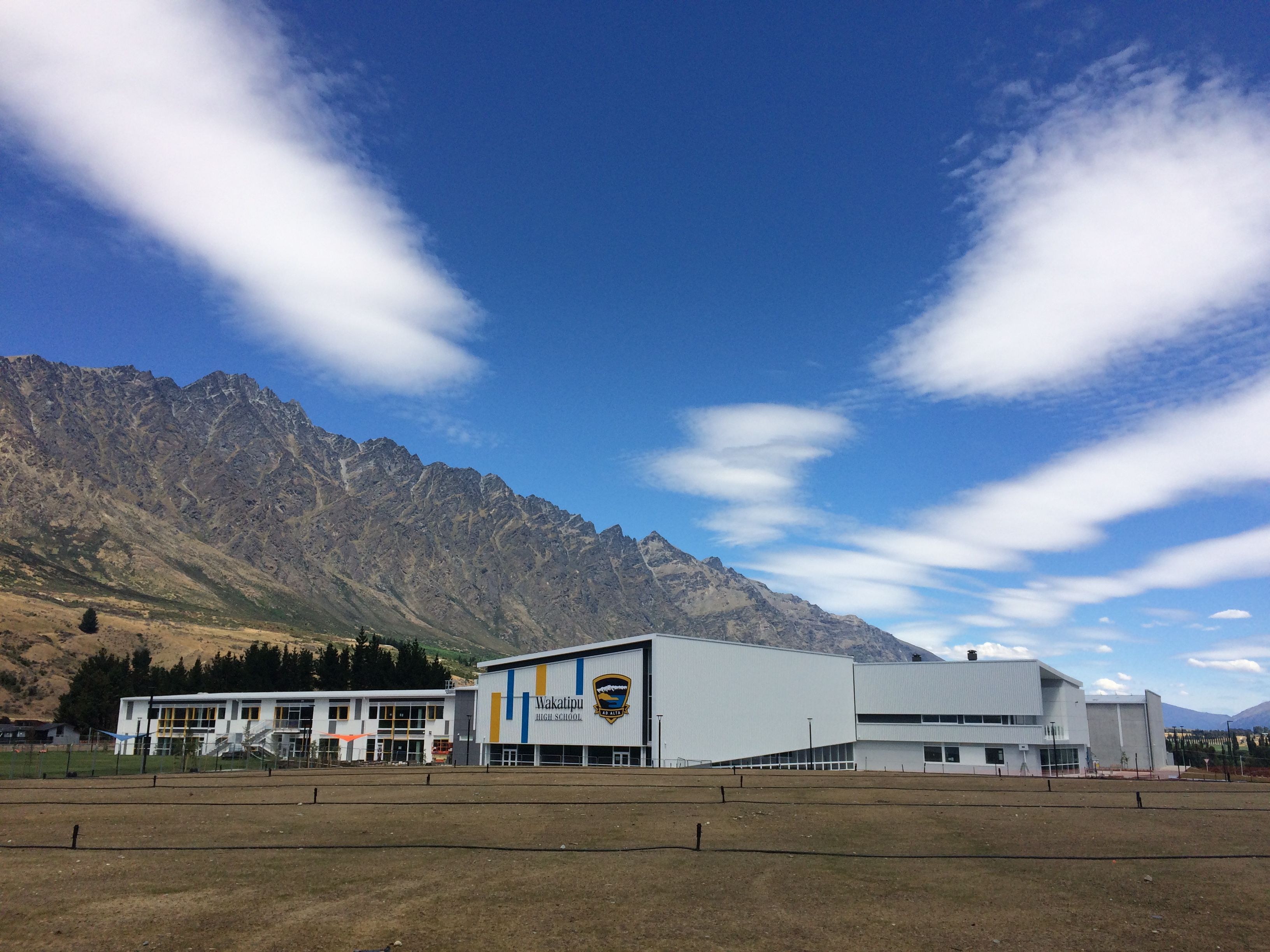 New campus of Wakatipu High School